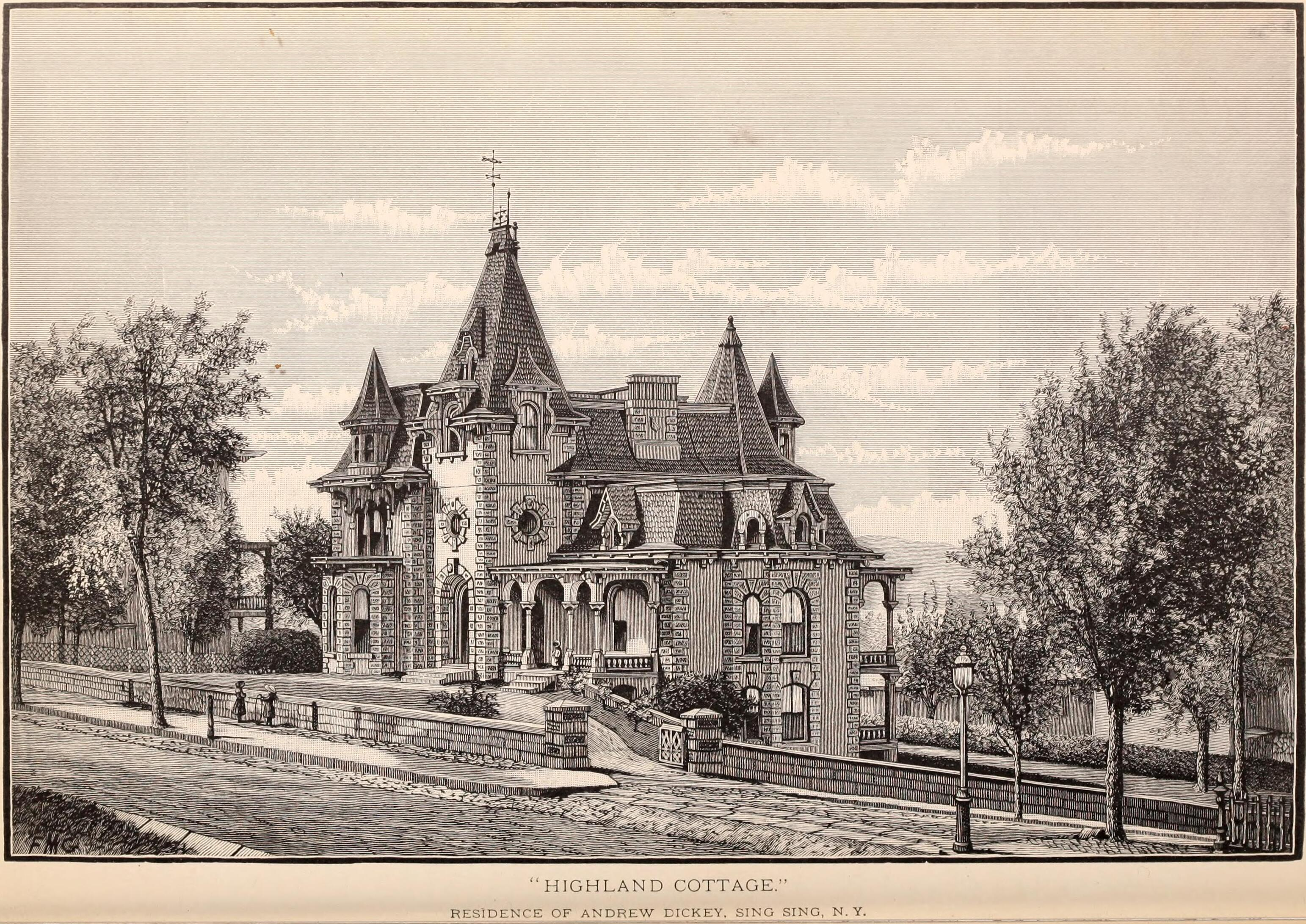 Title: History of Westchester county : New York, including Morrisania, Kings Bridge, and West Farms, which have been annexed to New York City / Year: 1886 (1880s) Authors: Scharf, J. Thomas (John Thomas), 1843-1898, Subjects: Manors Publisher: Philadelphia : L.E. Preston & Co. Text Appearing Before Image: The charter and ordinances by which the village isgoverned were printed at Sing Sing in the year 1S7J.The pamphlet is an octavo of fifty-eight pages (twen-ty-two pages of charter and thirty-six of ordinances).There are some very grave defects in these docu-ments. The most important relates to the publichealth. By the present charter the trustees have nopower to order or enforce the construction of a sewerin any part of the corporation, unless the same isrequested by a petition of one half of the propertyholders along the line of the proposed improvement.Hence any unwillingness on the part of the tax-pay-ers of a street or avenue may interfere with or com-pletely block any attempt to make an improvementhowever necessary the same should be to the publicwelfare in the way of salubrity. The establishment of an efficient Hoard of Healthis also rendered impossible by the present weak andmiserable charier. The theory of making a Hoard ofHealth of the president and trustees of the village is Text Appearing After Image: '